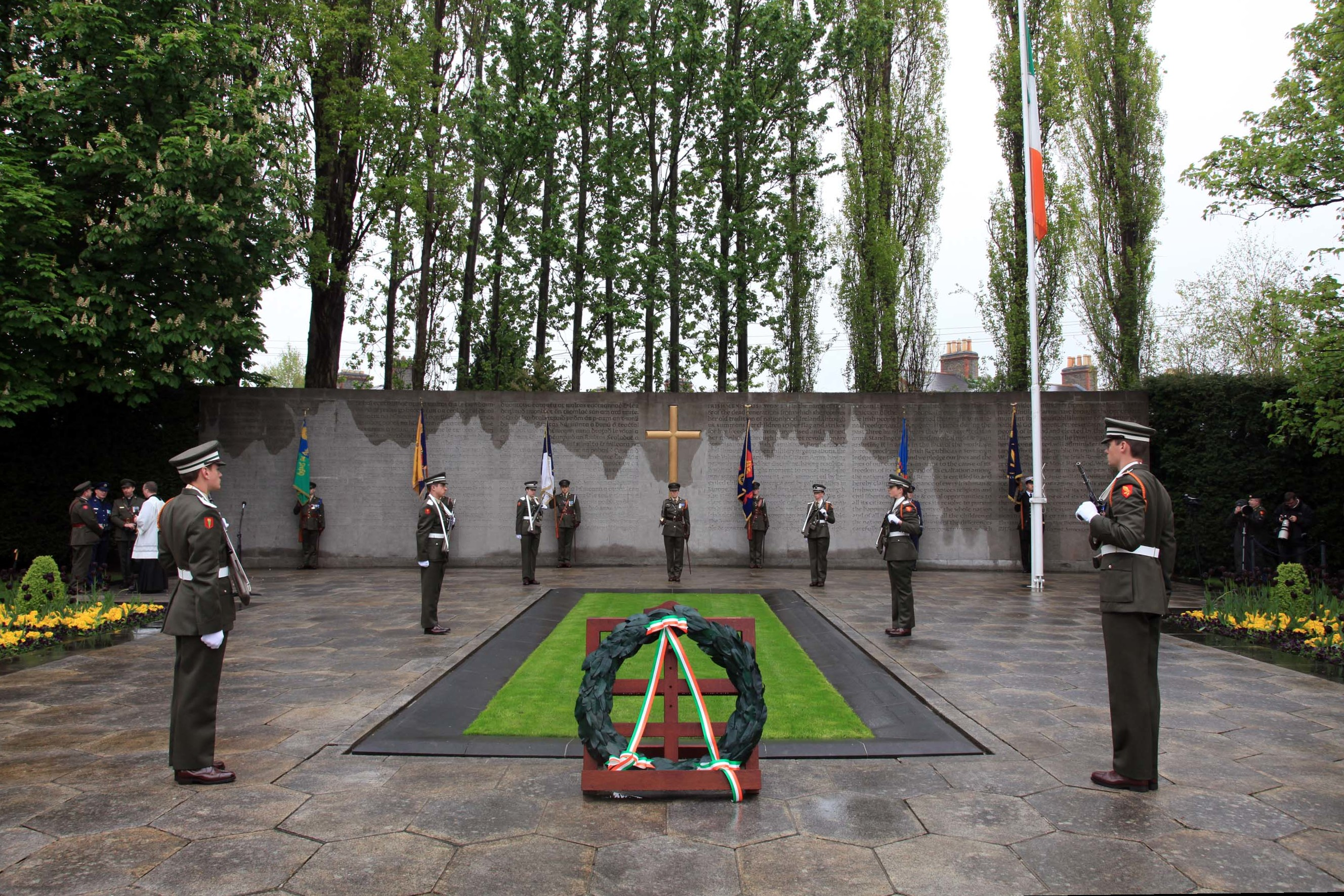 Cadets stand to Attention around the Plot of the 1916 Leaders in Arbour Hill